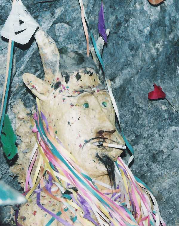 Figure of El Tio in Potosi - Bolivia 1993/9/4 photo by SHIBUYA K.